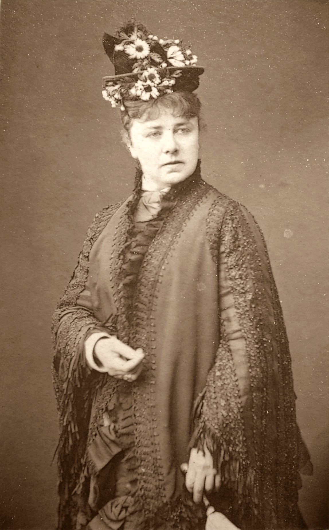 Marie Effie Wilton - Lady Bancroft 1840-1921, English Actress and Theatre-Manager.